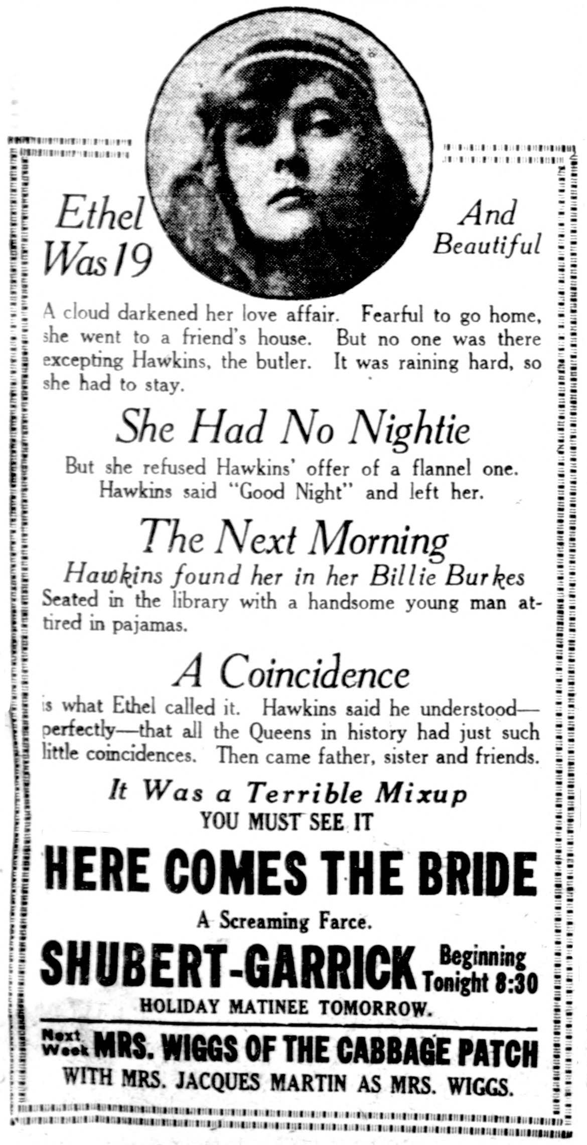 Here Comes the Bride is a lost 1919 silent film comedy produced by Famous Players-Lasky and released by Paramount Pictures. This is a newspaper advert with Faire Binney.